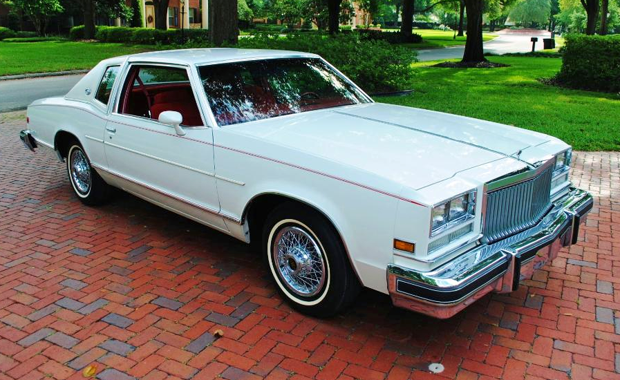 1978 Buick Riviera